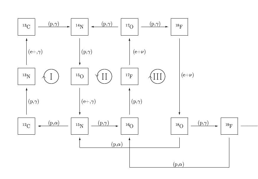 Detail of the CNO cycle running inside stars.